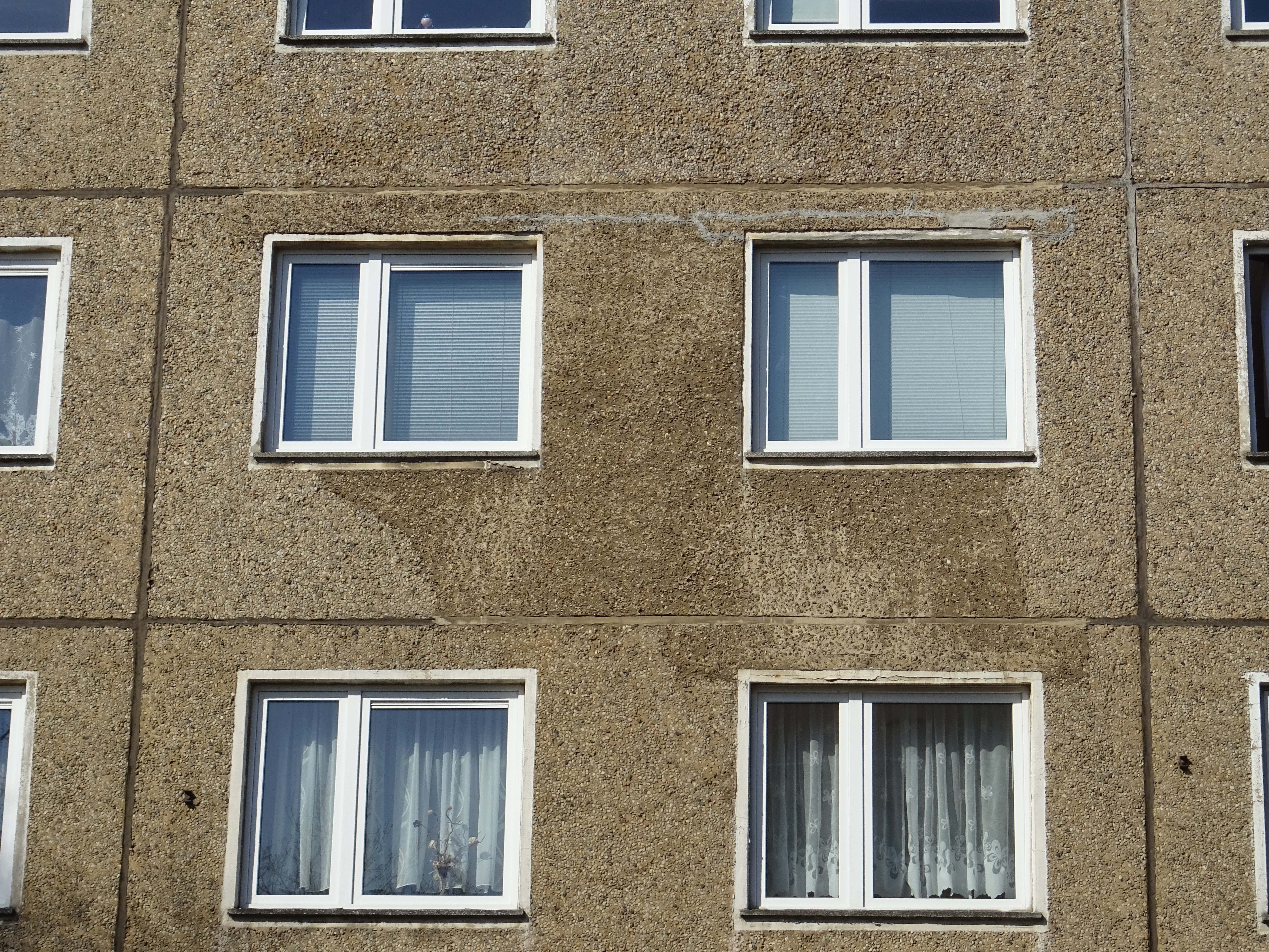 Third floor of the building in Schmellwitzer Straße 2 in Cottbus. The reparation, which was done after the crash of a MiG-21 at 14th January 1975 into this building, is visible.